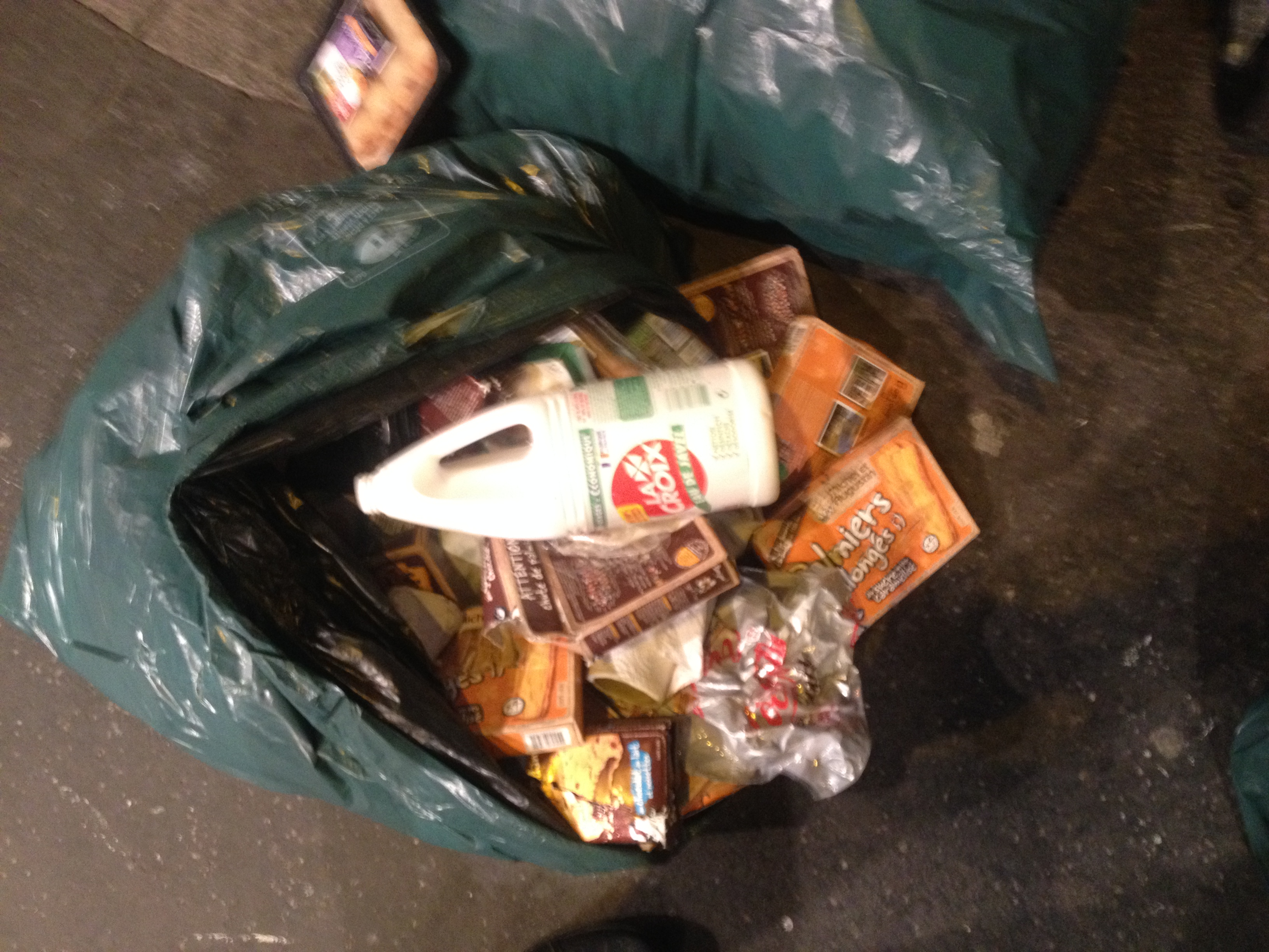 Bleach on food waste waiting to be picked up on a sidewalk in Paris, France.